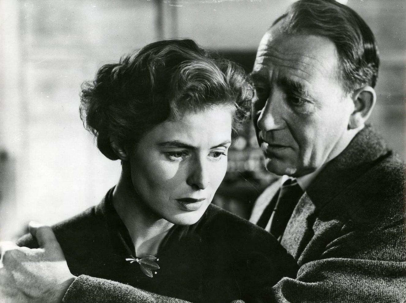 Studio publicity photo of Ingrid Bergman in Fear